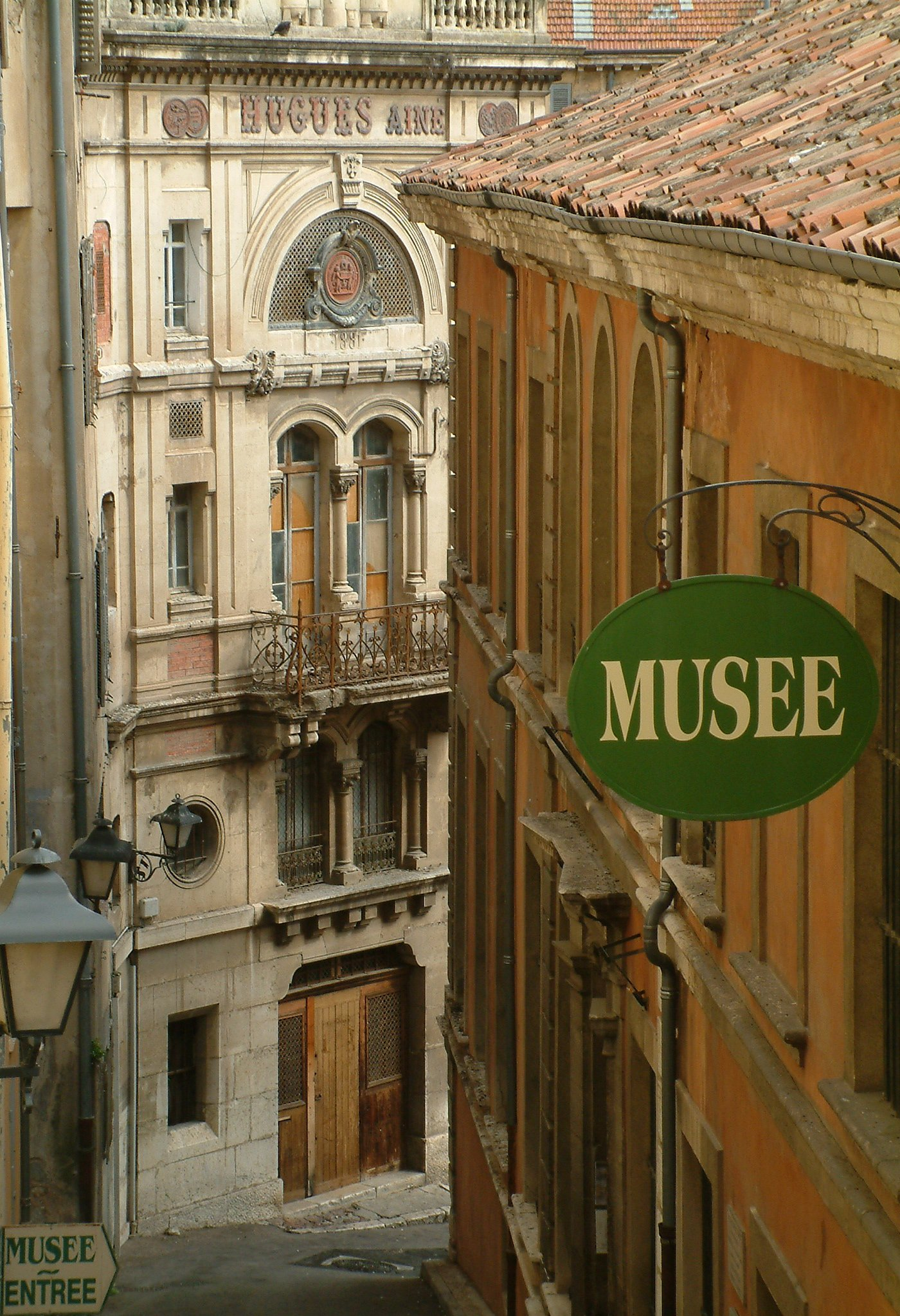 (fr) Photographie d'un rue de Grasse. A droite, la façade ocre du musée des arts et tradition de Provence et au fond l'ancienne parfumerie Hugues Ainé.(en) Photograph of an old street in Grasse. On the right, the brown building is the museum of arts and tradition of Provence and in the backgroud the former perfumery Hugues Ainé.